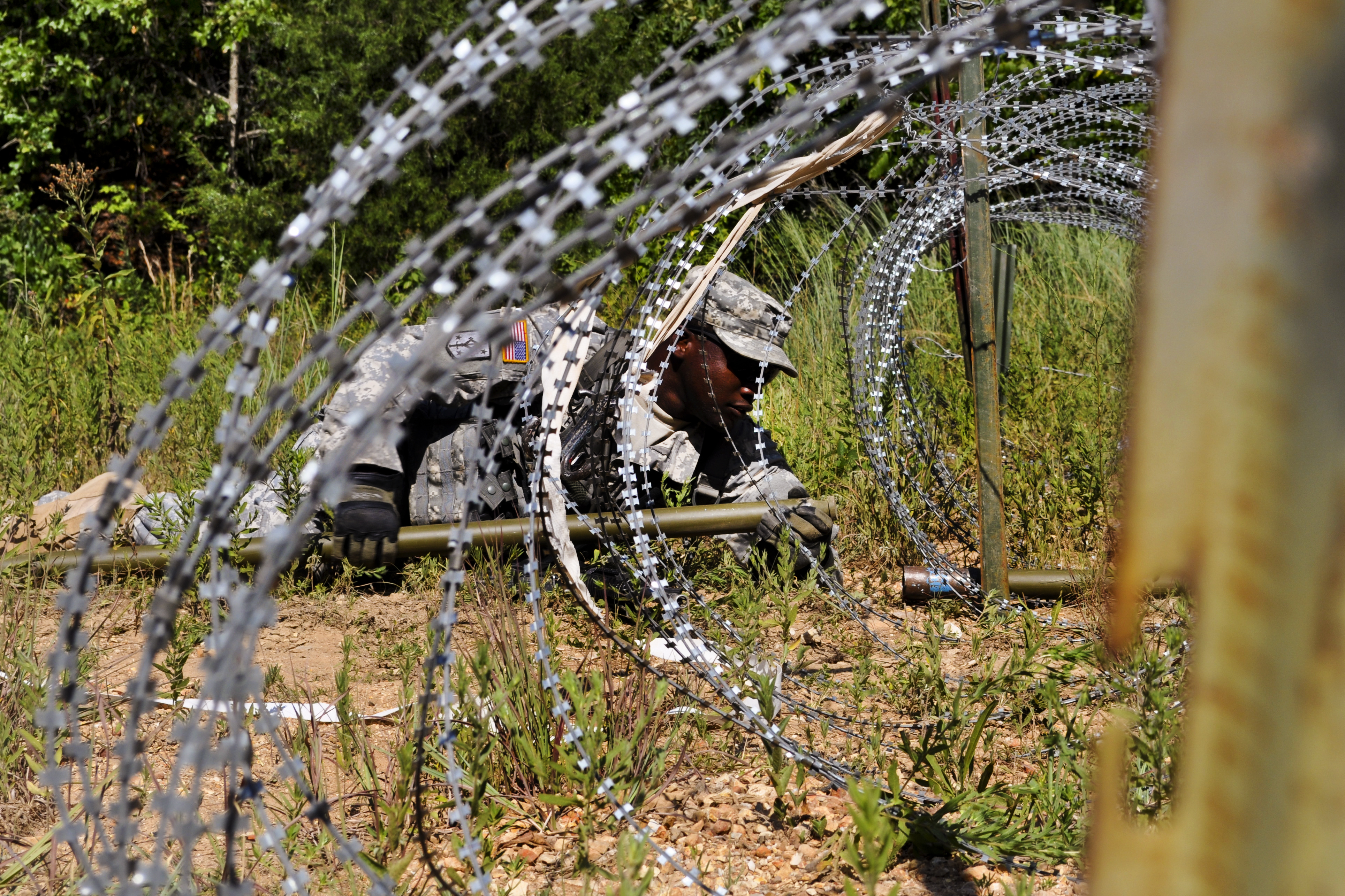 Spc. Oatis Henry, a combat engineer assigned to the 55th Mobile Augmentation Company, places a bangalore torpedo during a platoon concertina wire breach in a local training area July 20, 2012. The 55th MAC returned February 5, 2012 from a 12-month deployment where they conducted route clearance in support of Operation Enduring Freedom. (U.S. Army photo by Sgt. Heather Denby)